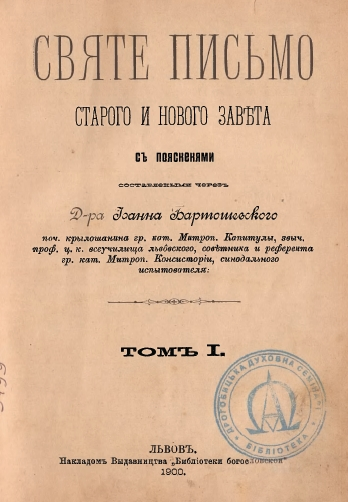 Old and New Testament